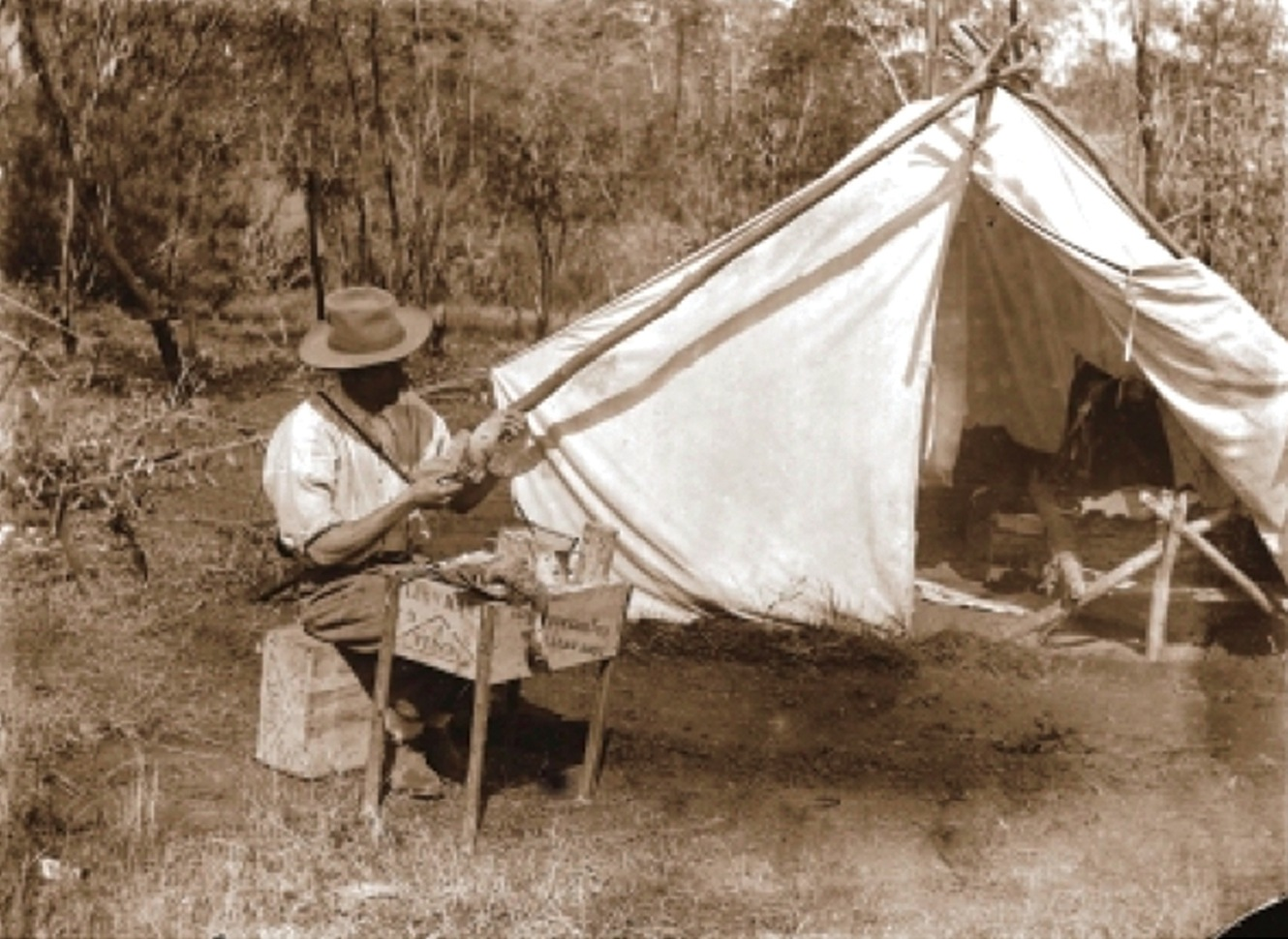 Australian natural history collector John T. Tunney (1871–1929), preparing specimens on the northern Australian expeditionary efforts during which his Zaglossus specimen was collected. Courtesy of the Western Australian Museum.